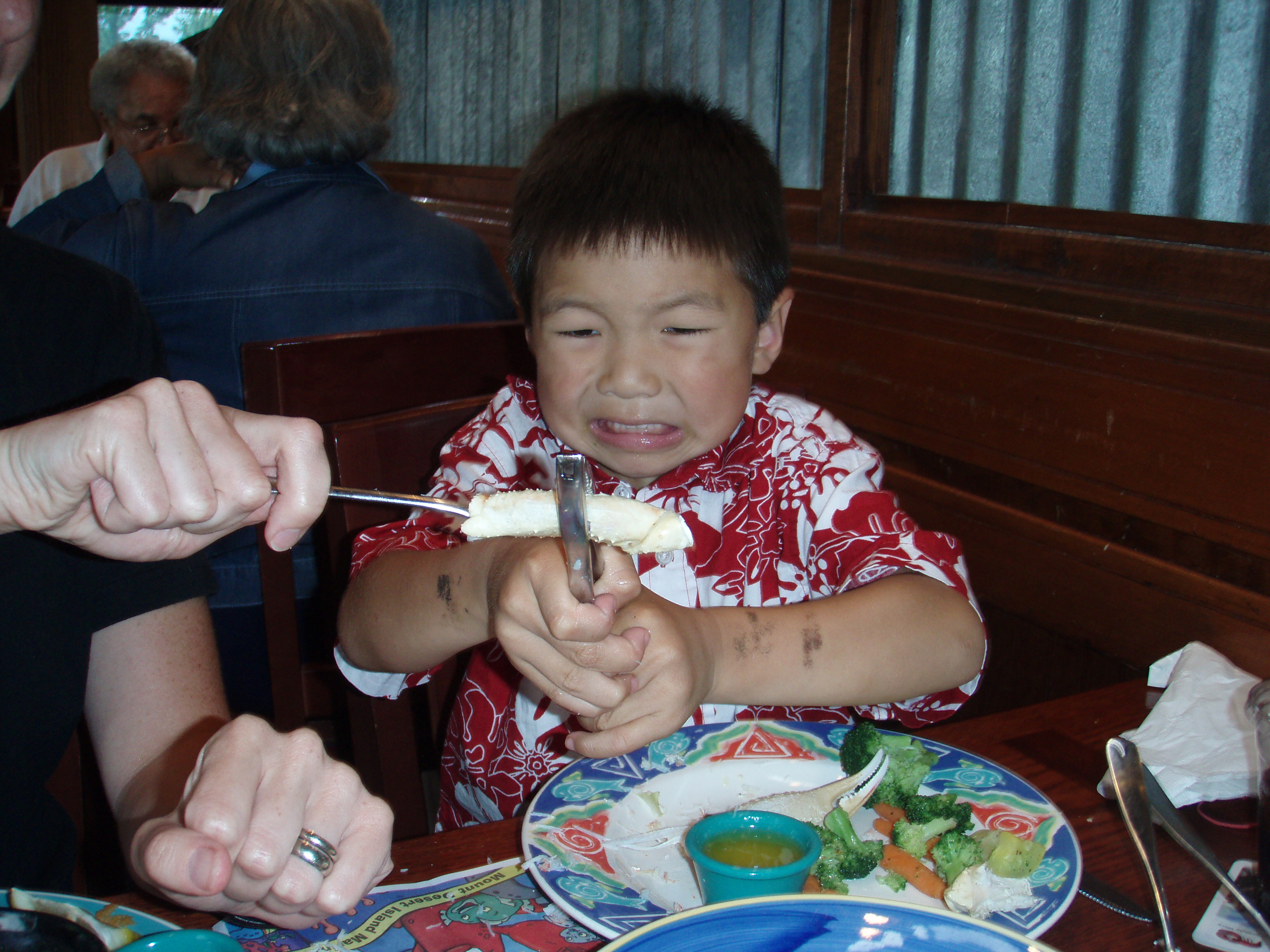 Goin for it, using a crab claw cracker at Red Lobster seafood restaurant